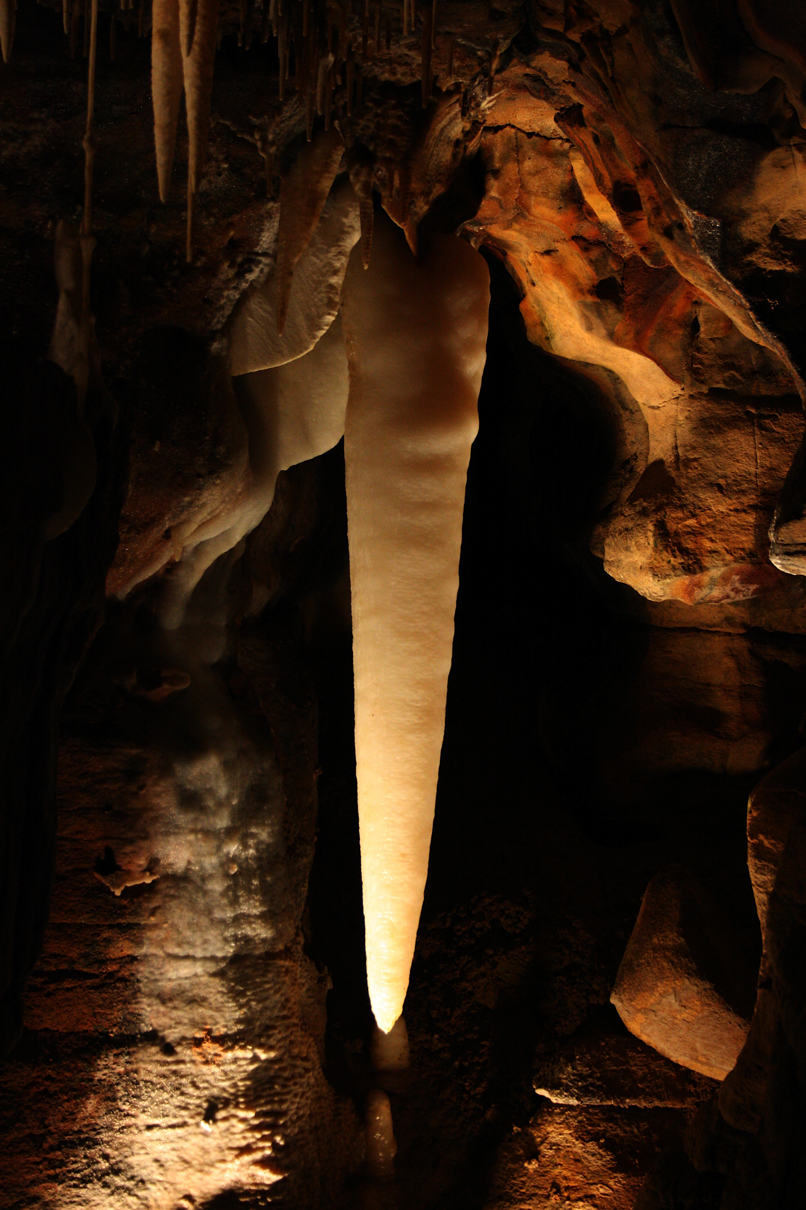 A picture of the Crystal King the largest Stalactite in the Ohio Caverns.